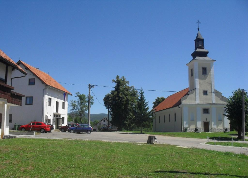 Church of Saint Michael in Lovinac, Croatia.